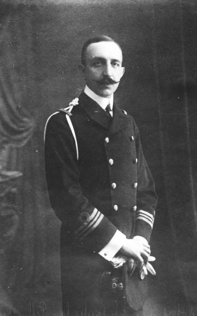 Photo of Lieutenant (later Admiral) Nikolaos Votsis during the Balkan Wars